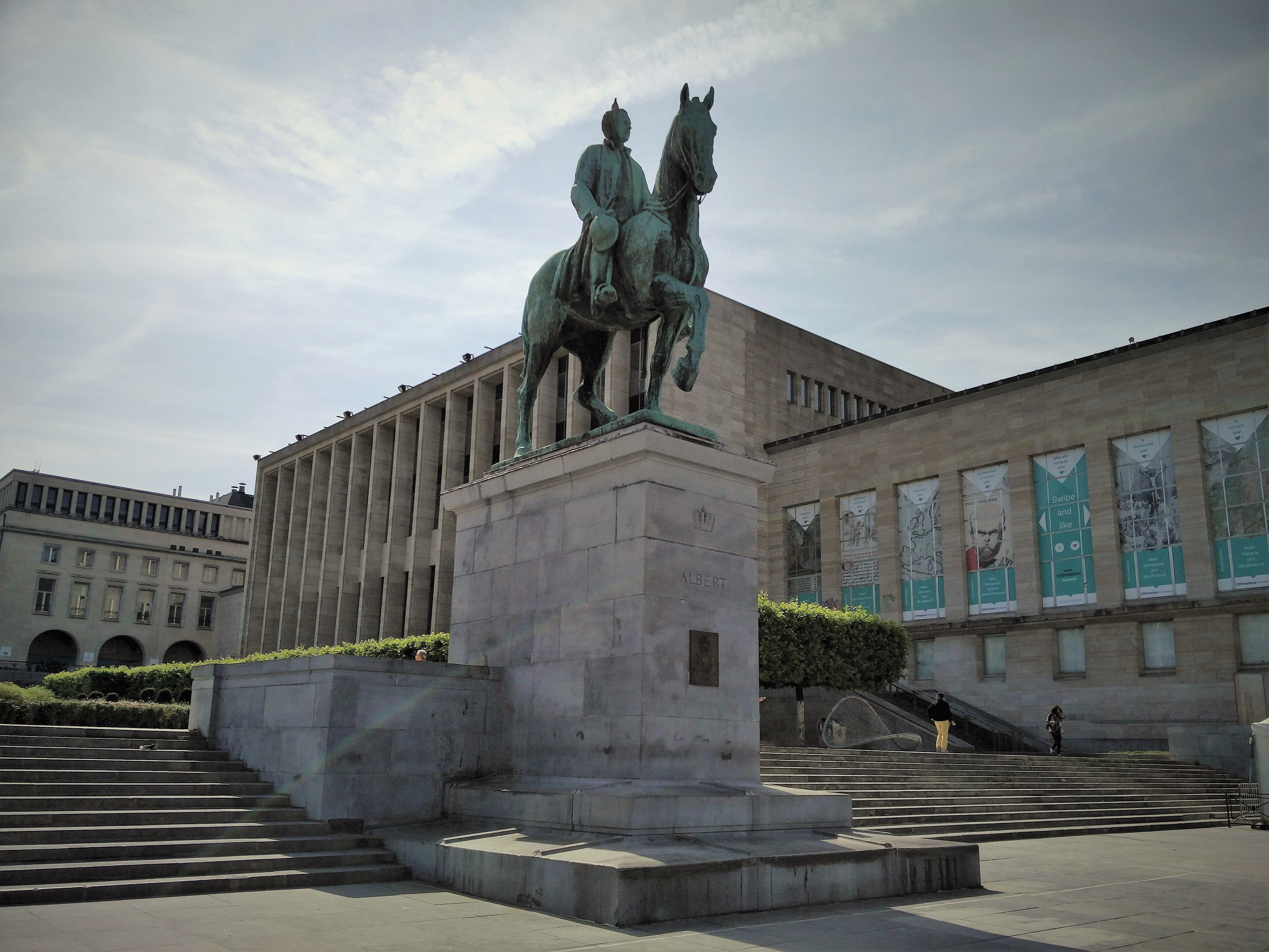 This is a file created at the museum: Royal Library of Belgium in Brussels